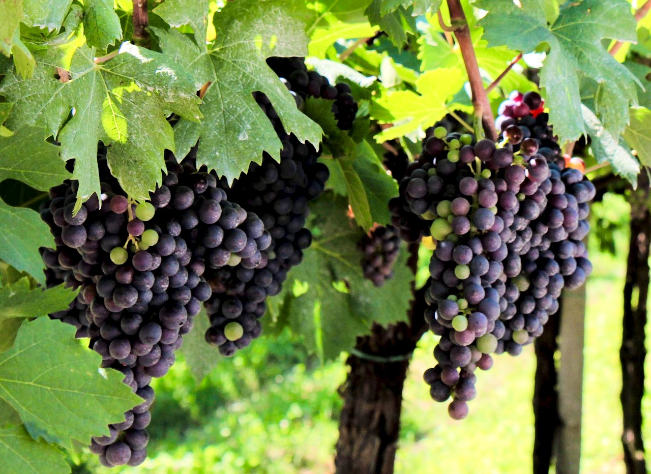 Unripe Corvinone grape bunches, photographed in the Tenute Ugolini vineyard in the Valpolicella region of northern Italy